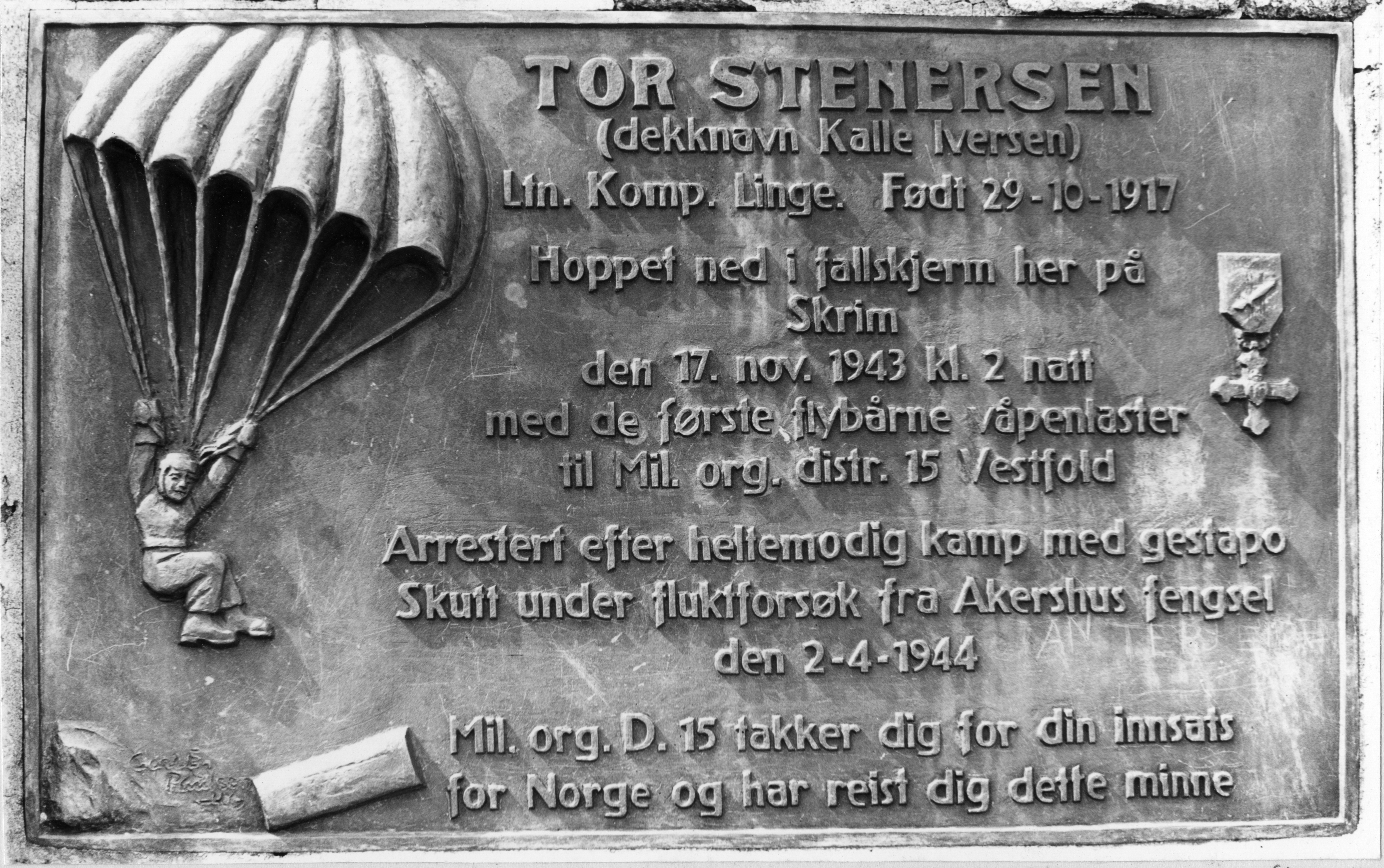 Minneplate over Tor Stenersen på Omholthfjell (Støle)